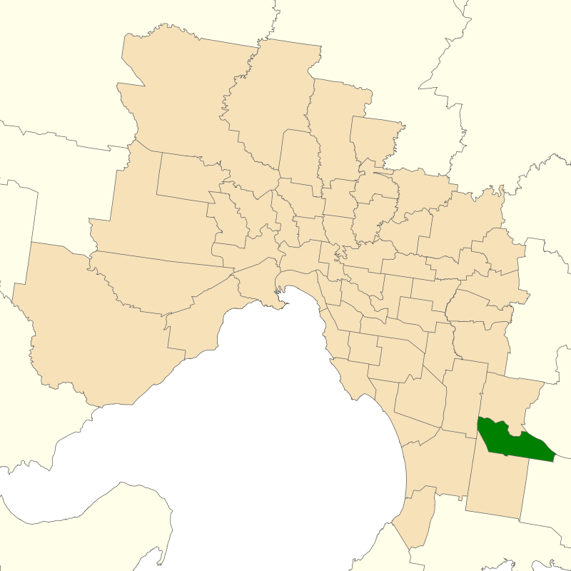 Location of the Victorian electoral district of Narre Warren South (dark green) in the Greater Melbourne area.